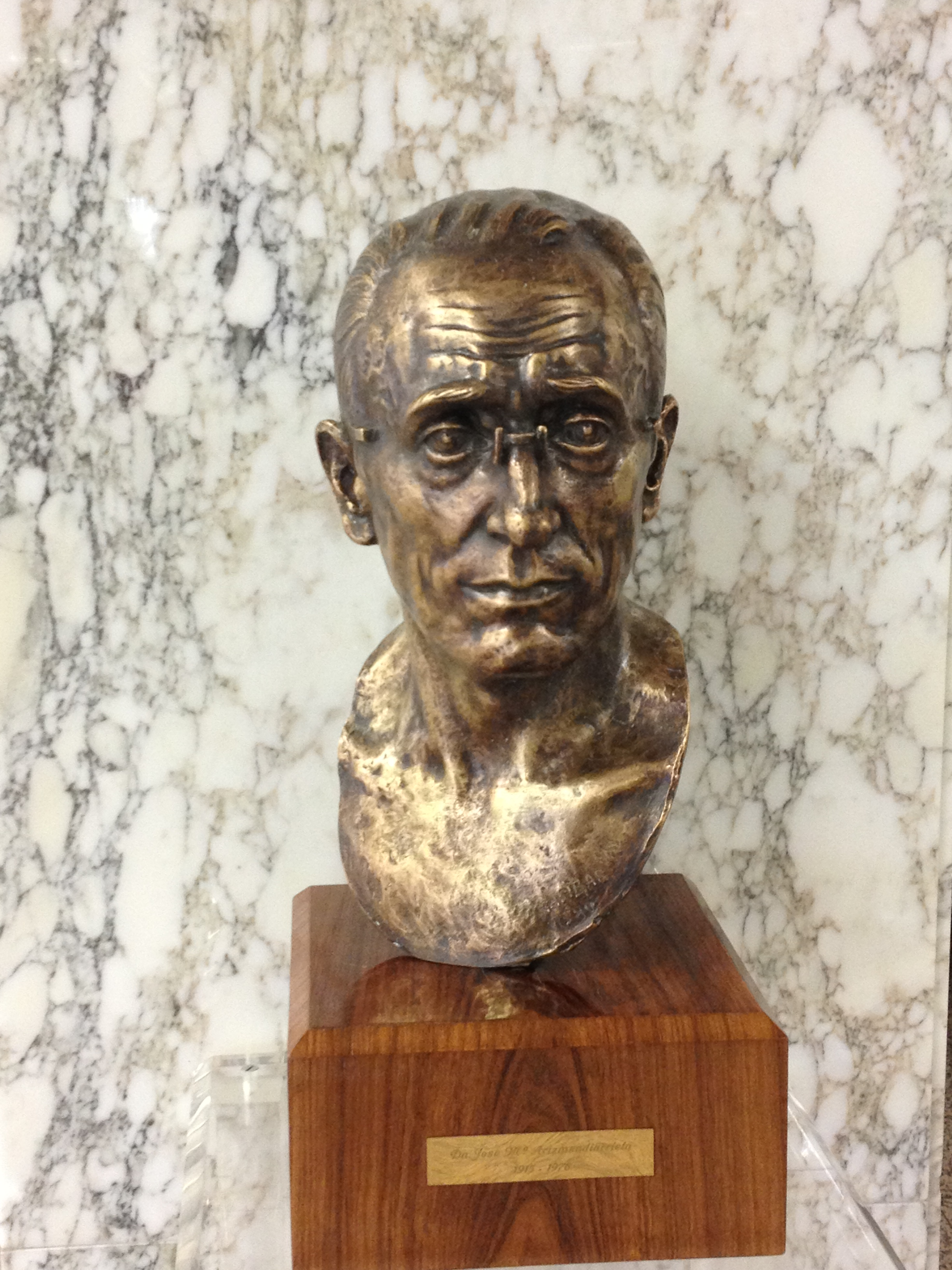 Jose Maria Arizmendiarrieta Statue in Mondragon's University